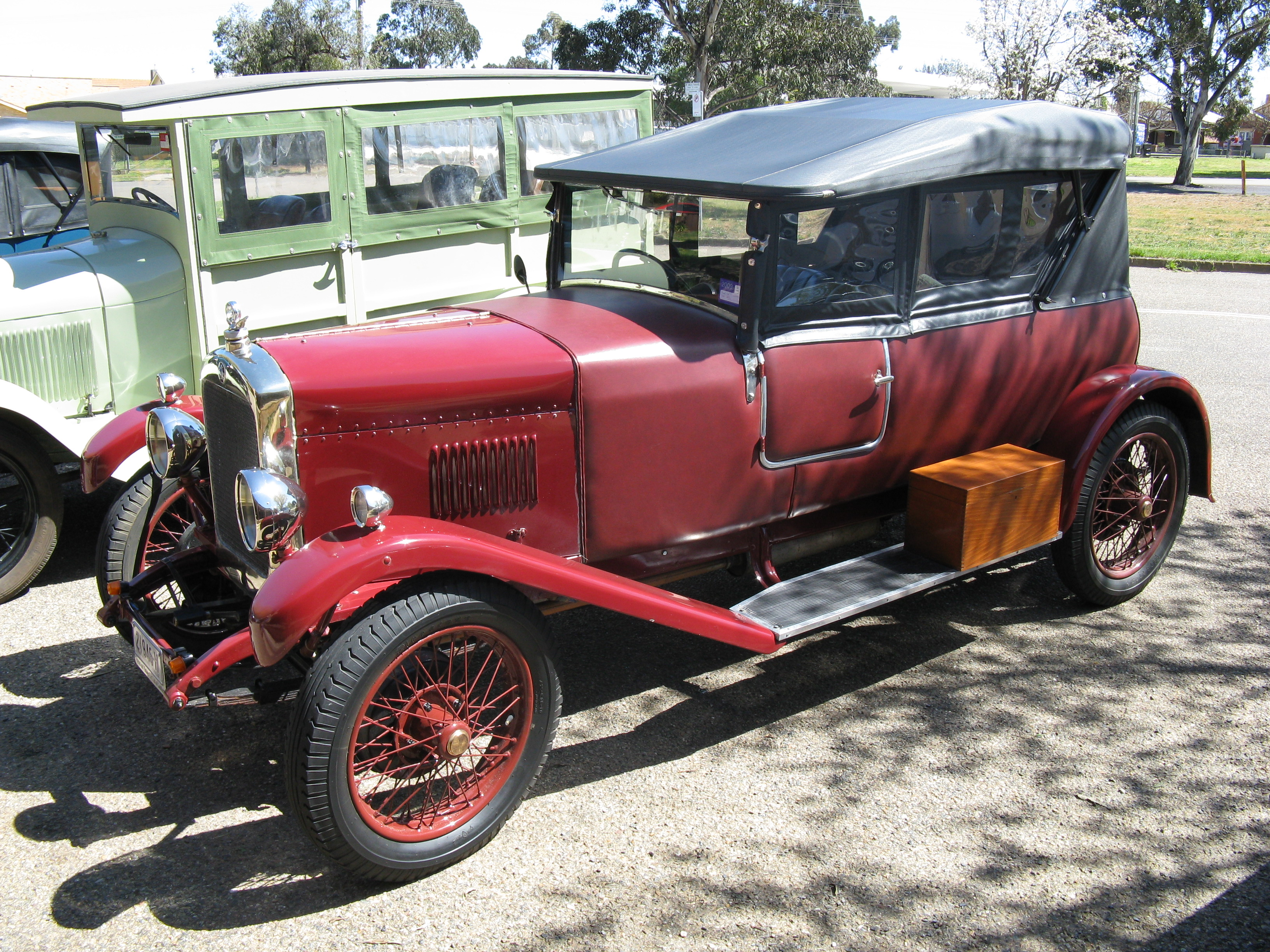 This is a fabric bodied 2 door Hillman 14, picture taken in Goulburn NSW Australia